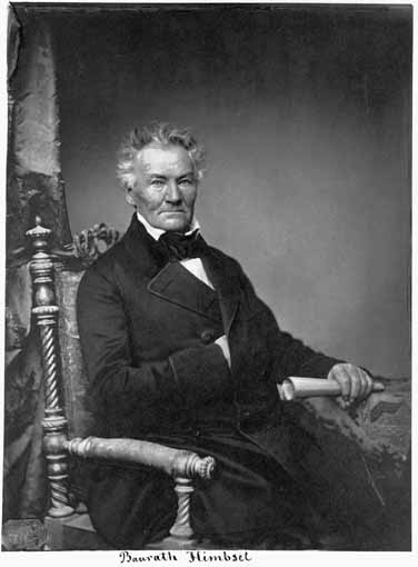 The bavarian architect Johann Ulrich Himbsel (1787-1860)